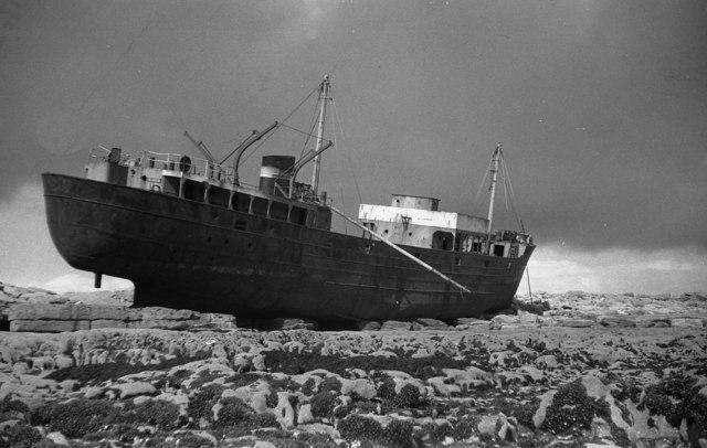 Plassy wrecked on 8th March 1960 at Carraig na Finnise reef, Inisheer, Aran Islands [2]